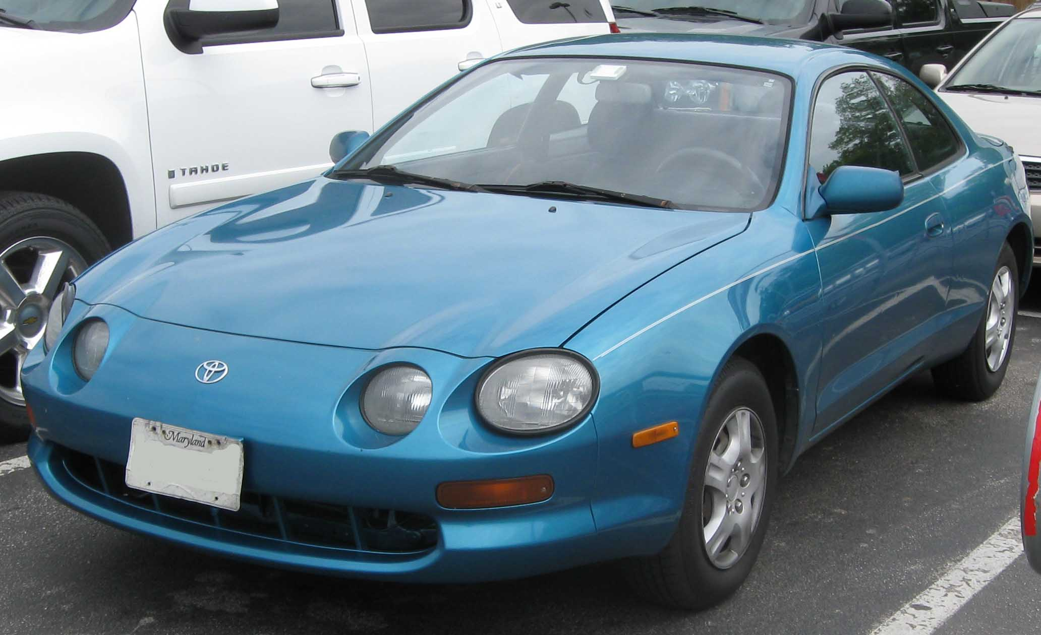 1994-1995 Toyota Celica ST Coupe (AT200) photographed in Waldorf, Maryland, USA.